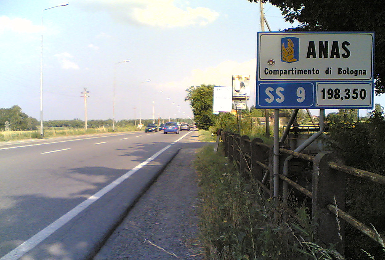 Strada Statale 9 Via Emilia between Parma and Reggio Emilia